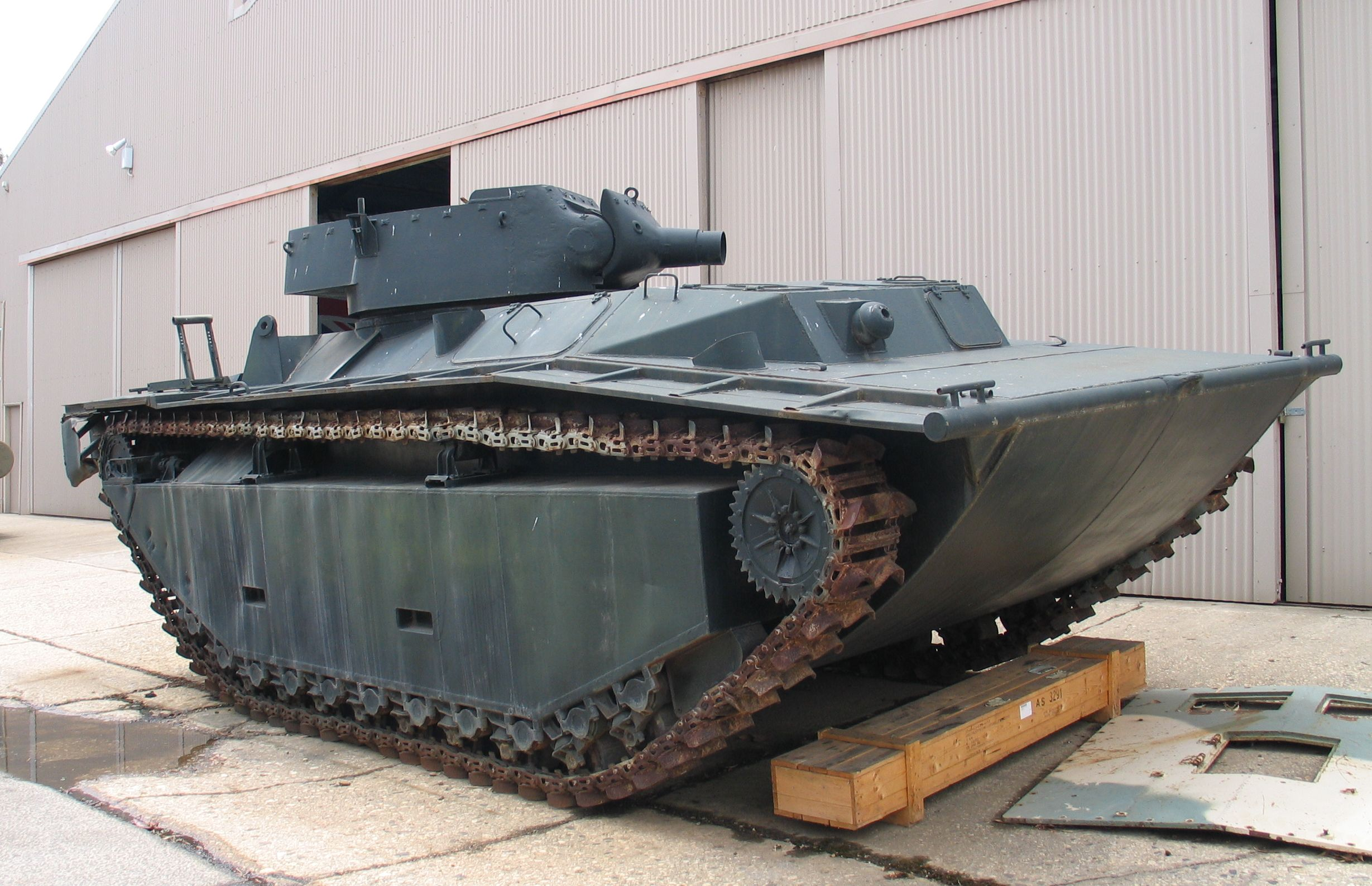 LVT(A)-4 in Royal Australian Armoured Corps Tank Museum, Puckapunyal, Australia.